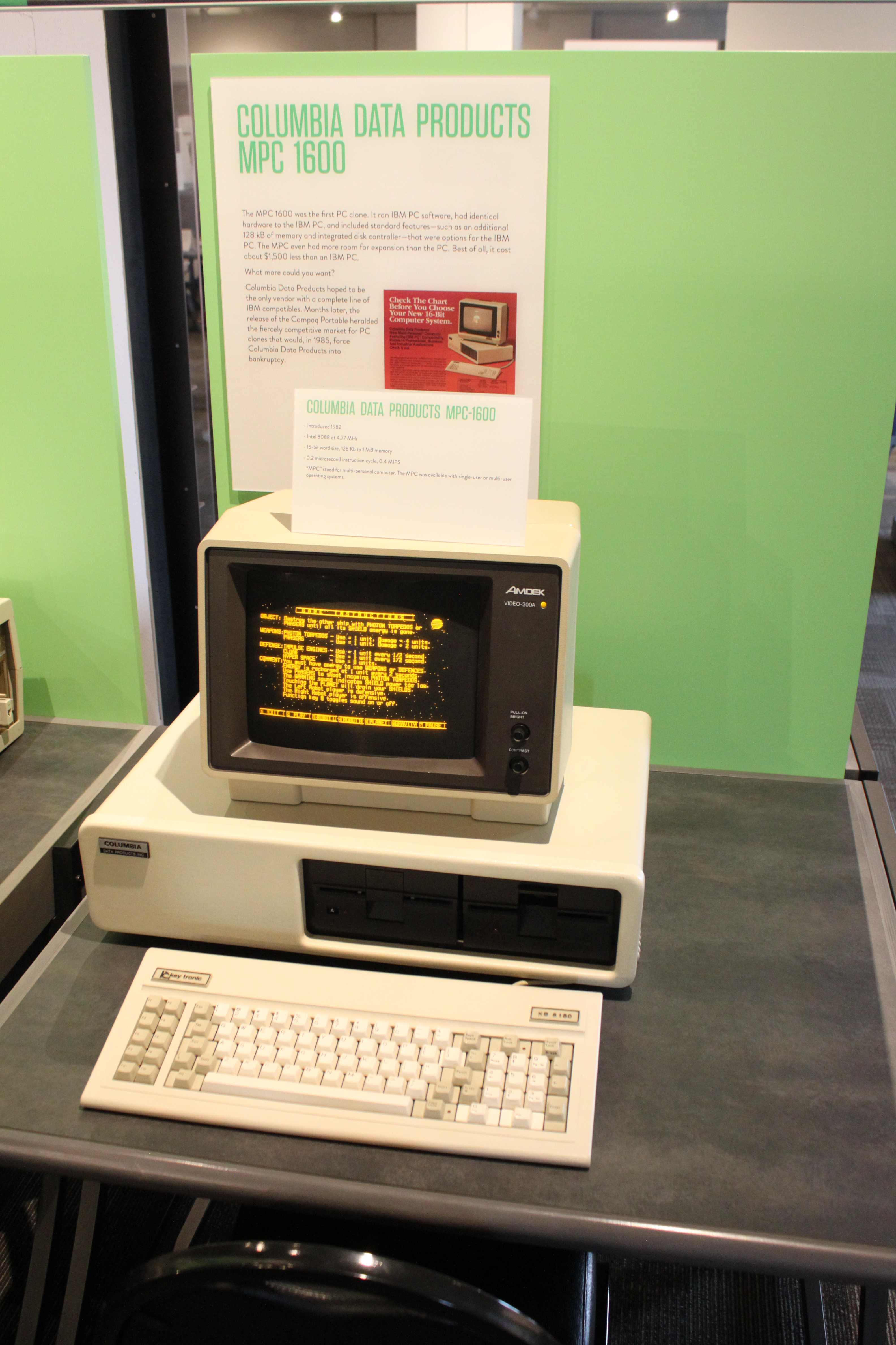 Columbia Data Products MPC 1600 was the first IBM PC Clone